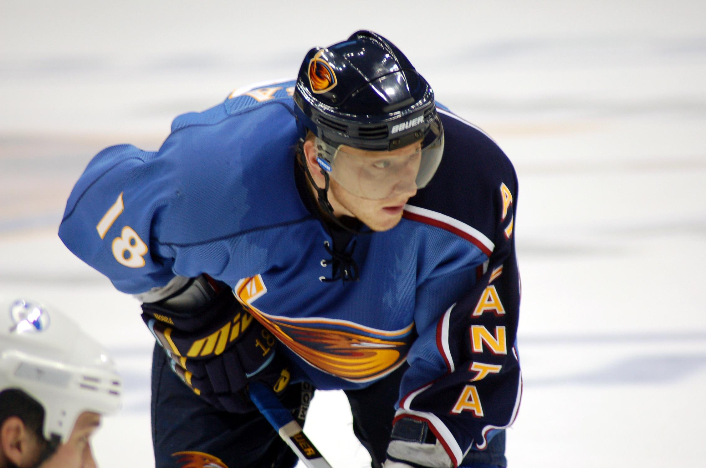 Slovak ice hockey player Marian Hossa